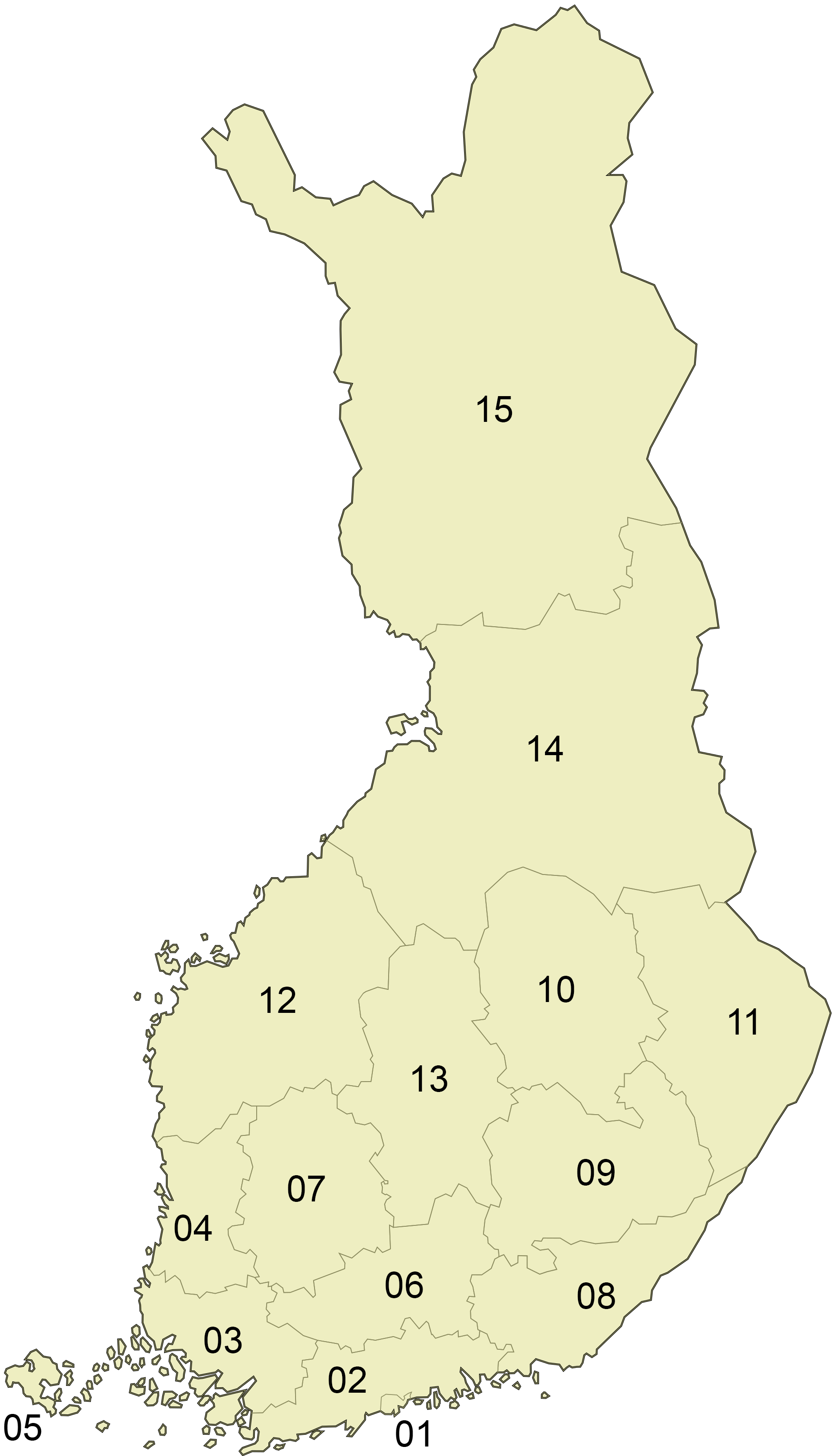 Map showing the electoral districts of Finland years 1962-2011.